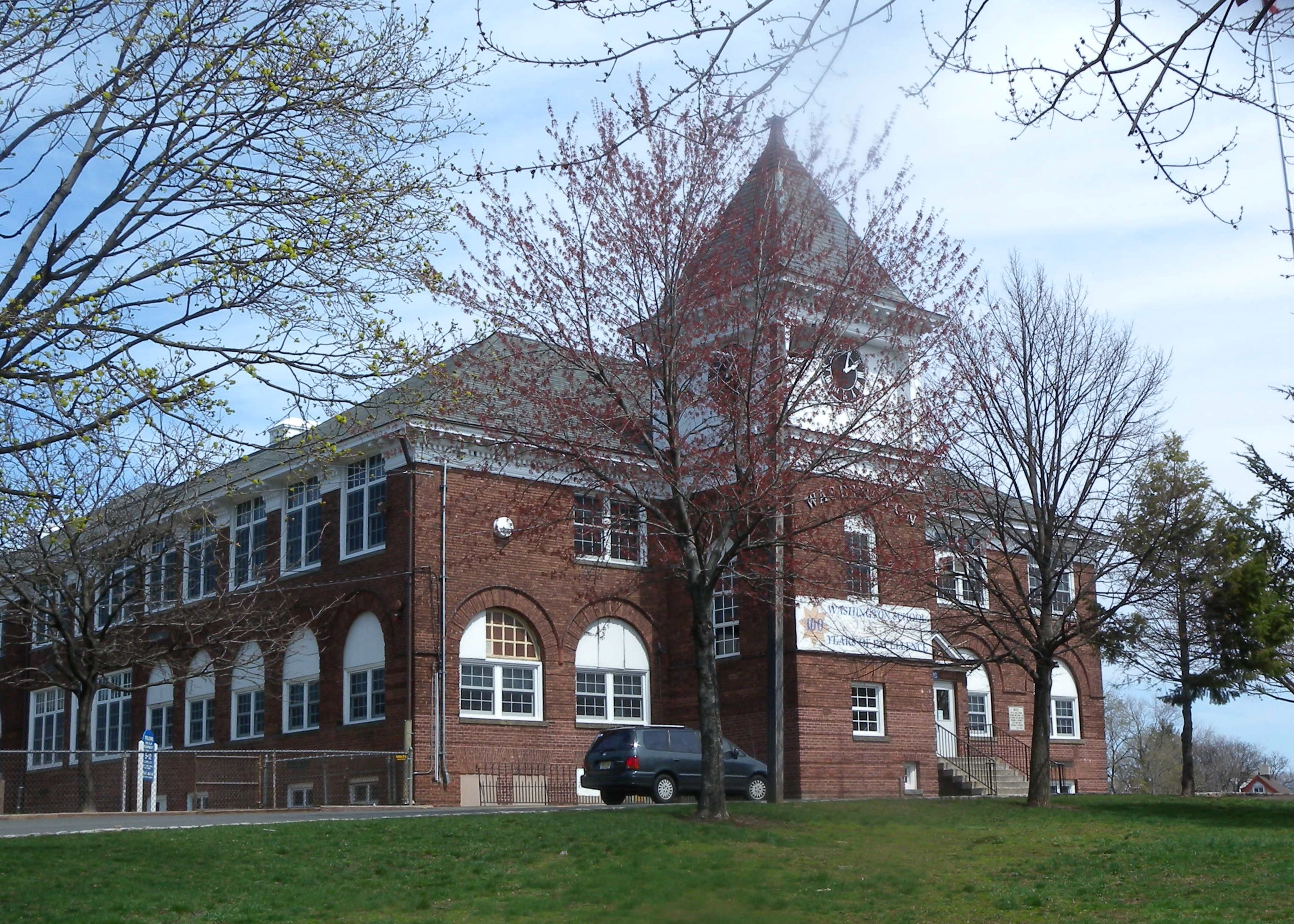 Lookiing northeast at Washington School on a sunny midday.